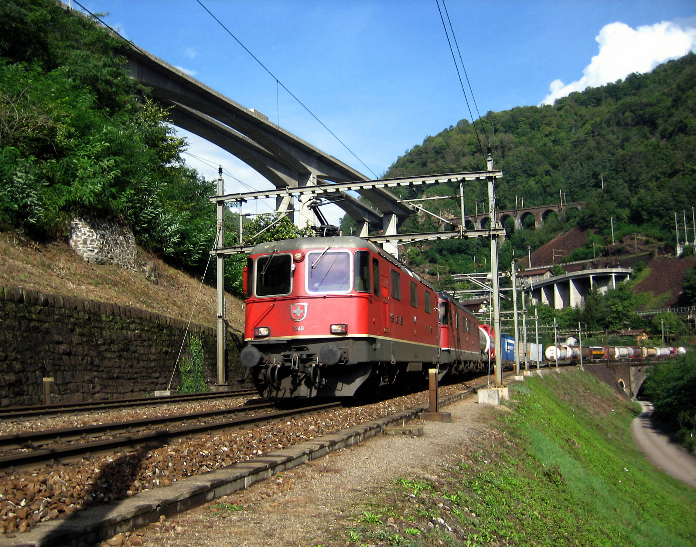 Intermodal train southbound to Italy on Gotthard line after crossing the Biaschina gorge and passing two spiral tunnels near Giornico, Canton Ticino, Switzerland Visible are train tracks on 3 levels (spiral tunnels between them), the Biaschina-Viaduct of the A2 Gotthard-Autobahn (top left) and the hairpin-bends of the Kantonsstrasse 2 (center right) This photo portrays complex structures heavy trains need 2 locomotives to pass the steep line international trucks crawl up the highway to the roadtunnel (truck traffic tenfolded since the opening of the Gotthard roadtunnel) The new Gotthard-Basetunnel of the Alptransit initiative will pass all these difficulties due to its length and flat raillink concept.